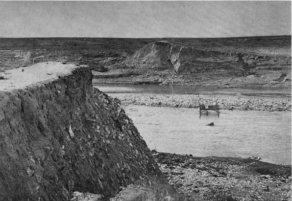 Avalon Dam, New Mexico after being washed out in the flood of October 1904